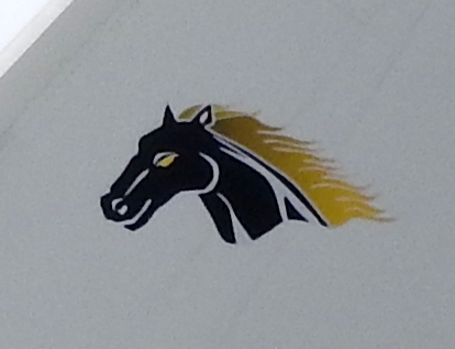 This is the tail marking on KC-767J 87-3601 at the 2016 Hyakuri Air Show